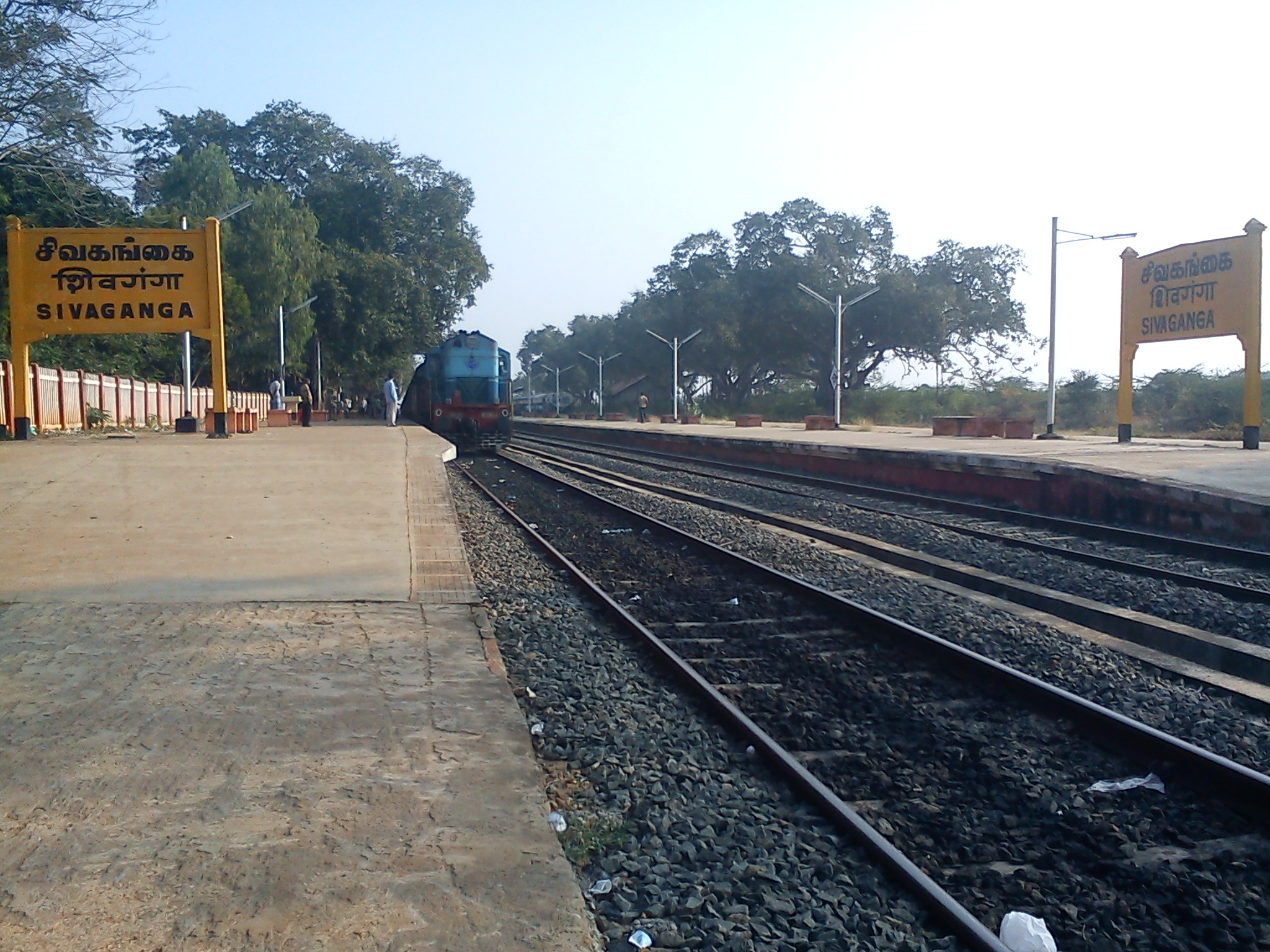 Rameshwarem Exp at Sivagangai Railway Station 1 st Platform